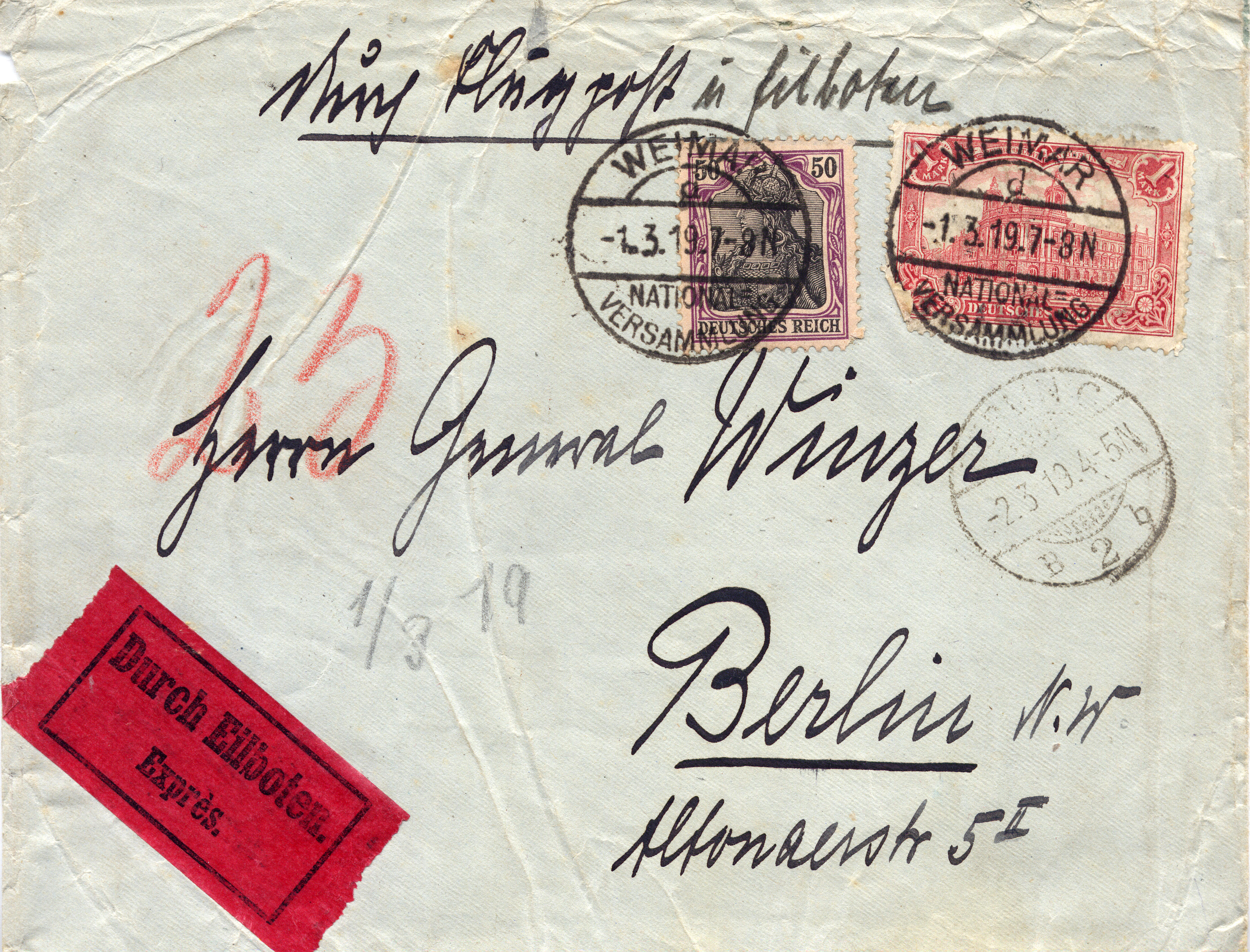 Airmail cover mailed from the Weimar National Assembly to Berlin on March 1 1919